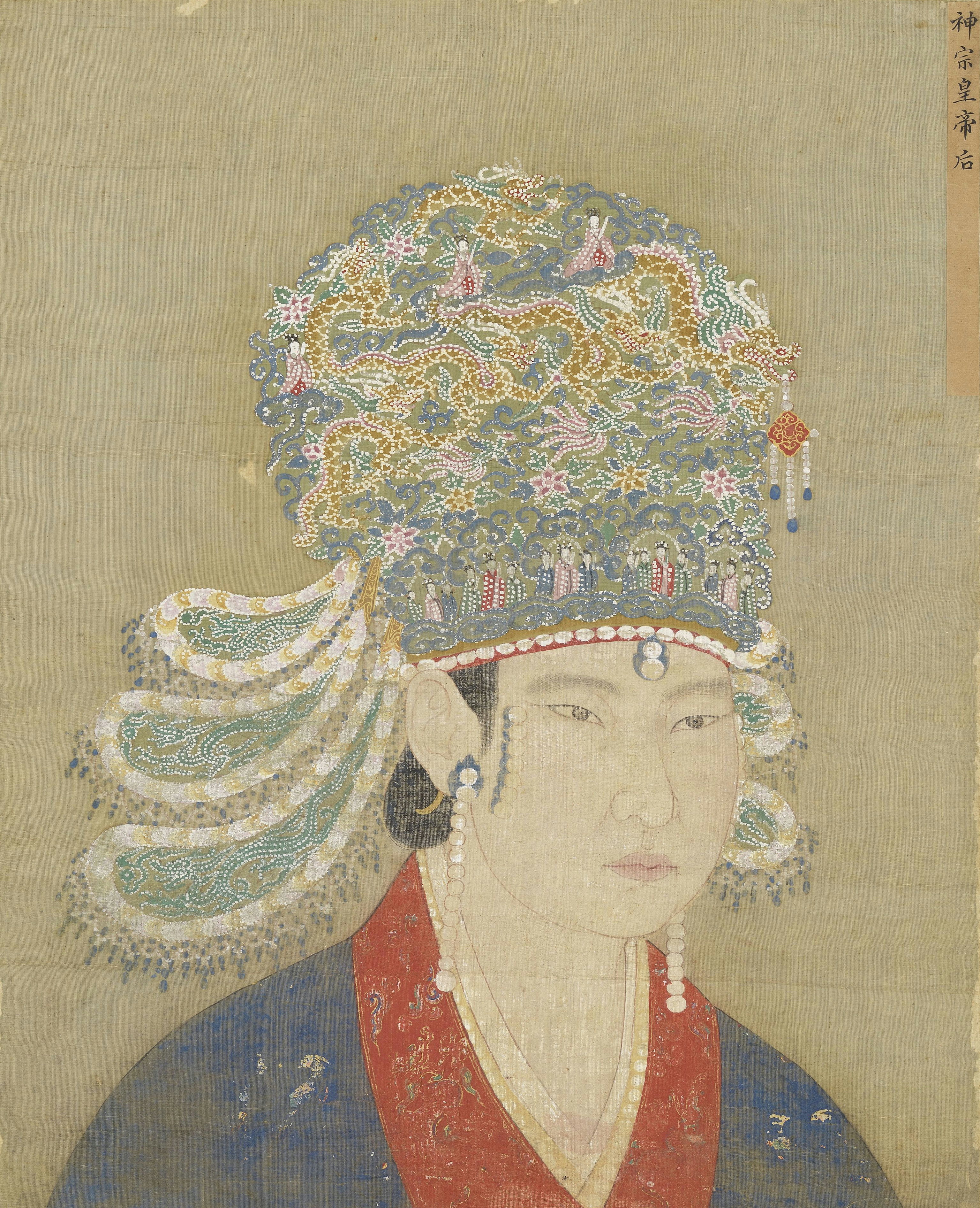 The official imperial portrait of Song dynasty's Empress Xiang.